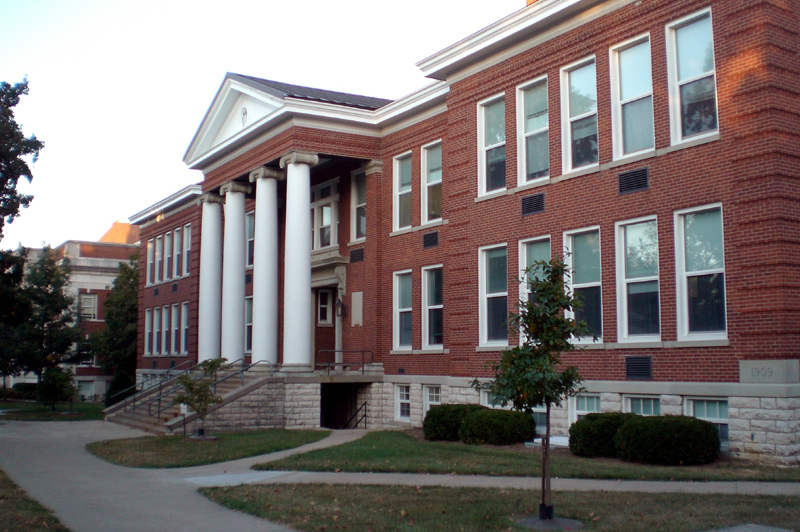 Exterior photograph of the Roark Building on EKU's campus.